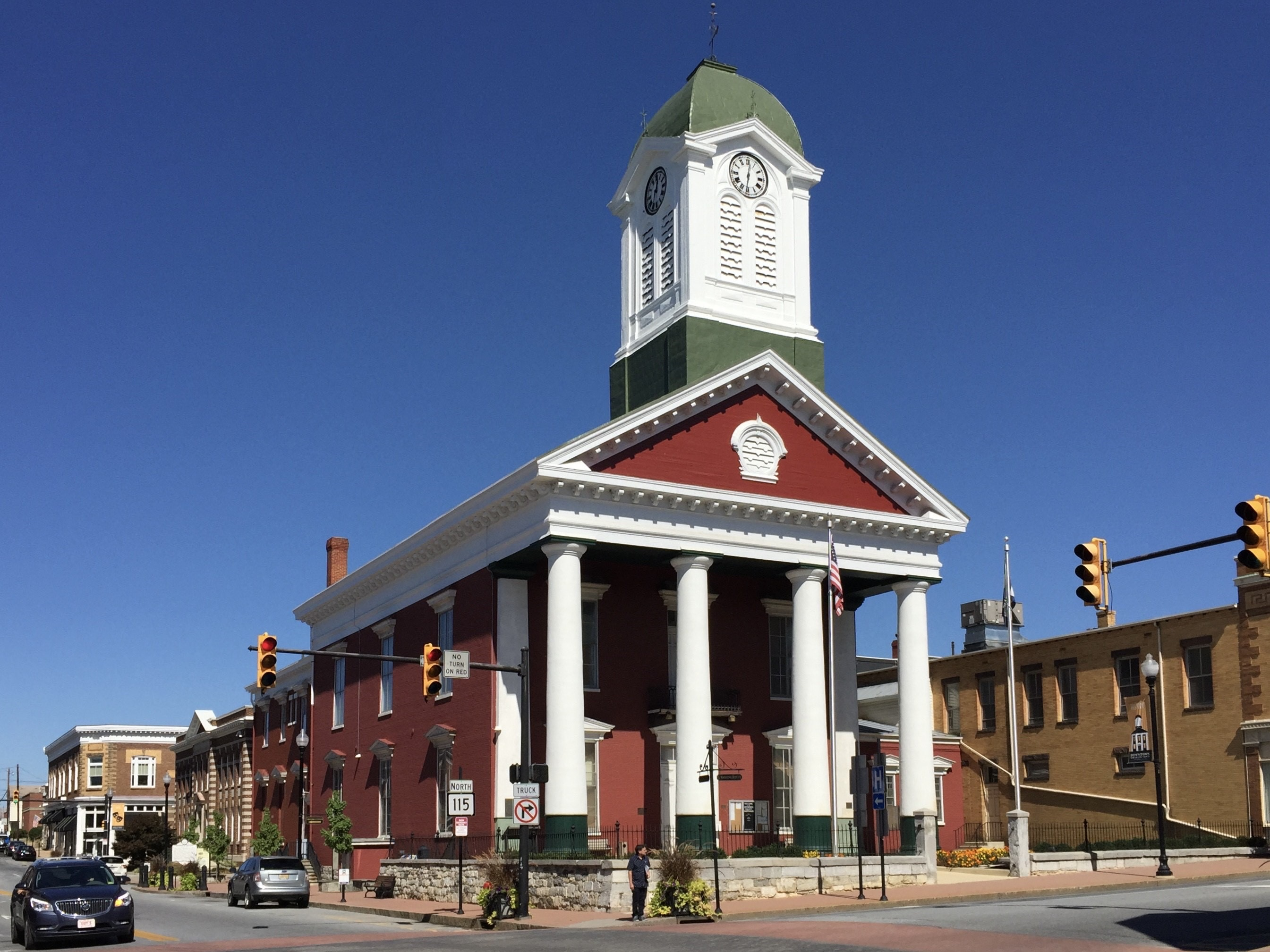 The Jefferson County Court House at the intersection of West Virginia State Route 115 (George Street) and West Virginia State Route 51 (Washington Street) in Charles Town, Jefferson County, West Virginia